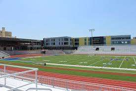 NLRHS Football Feild